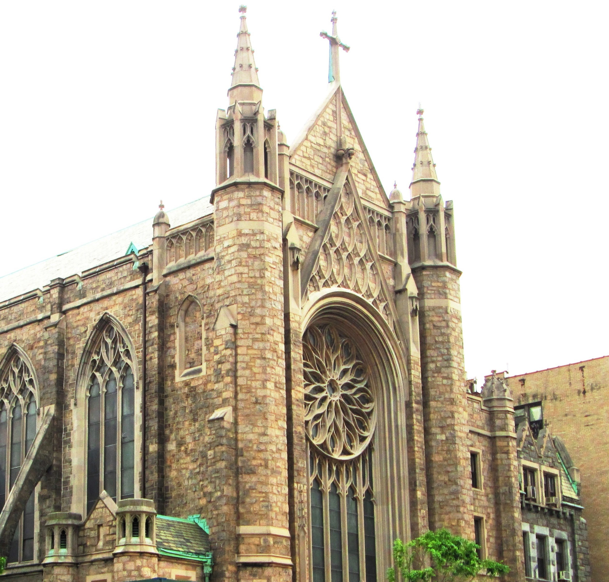 The Roman Catholic Church of the Incarnation, located at 1290 St. Nicholas Avenue (Juan Pable Duarte Boulevard) at West 175th Street in the Washington Heights neighborhood of Manhattan, New York City, was built in 1928 and was designed by W.H. Jones. The parish was founded in 1908. (Source: From Abyssinian to Zion (2010))